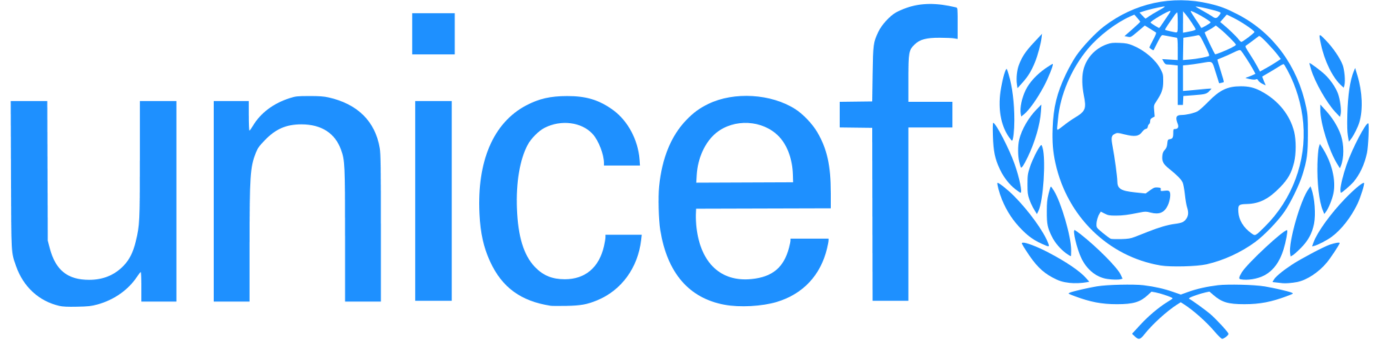 Emblem of the United Nations Children's Emergency Fund